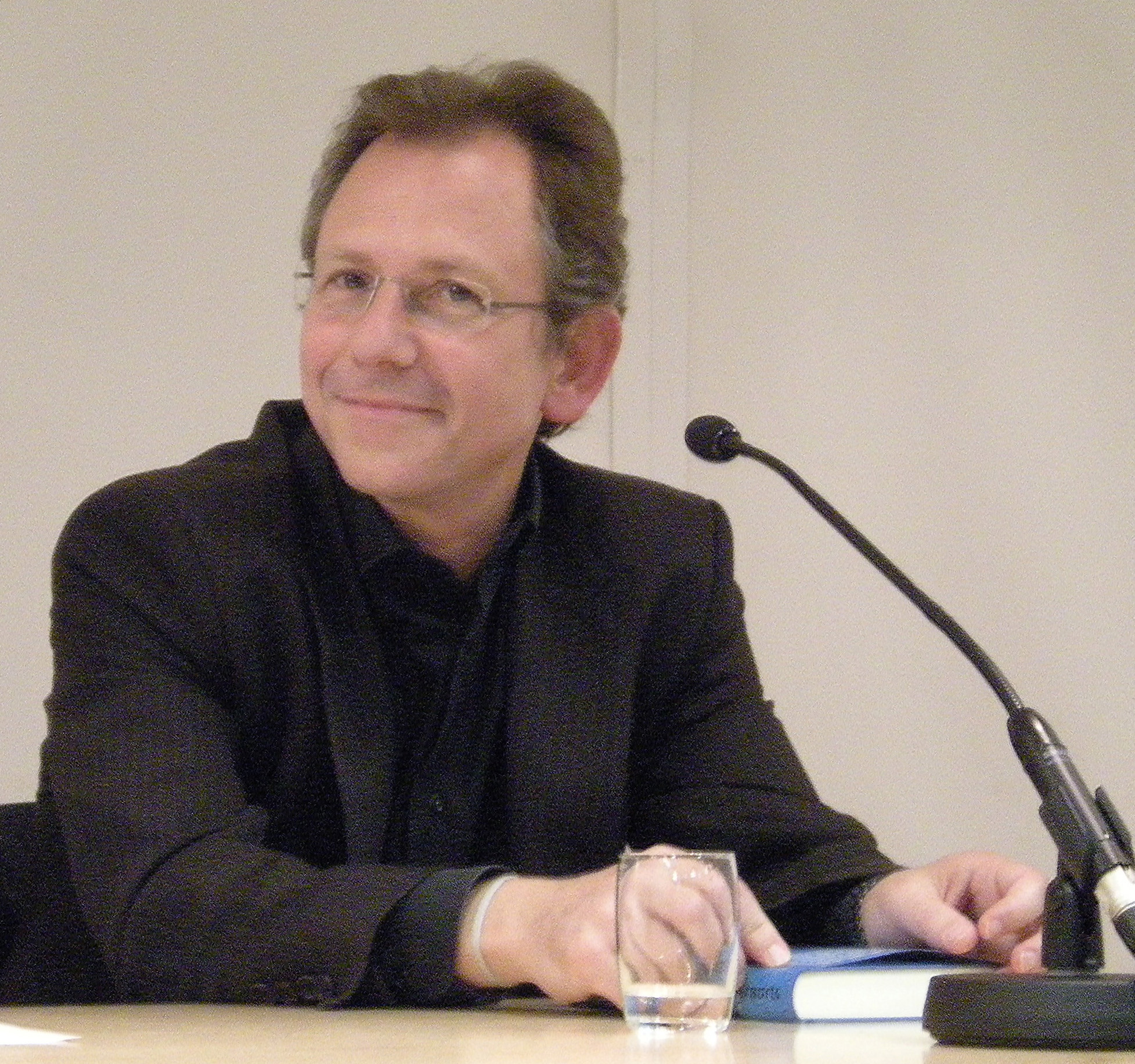 Doron Rabinovici presenting his outspoken novel 'Andernorts' in Vienna, Austria. Please note that camera's time stamp is set to UT, which is local CEST -2h.